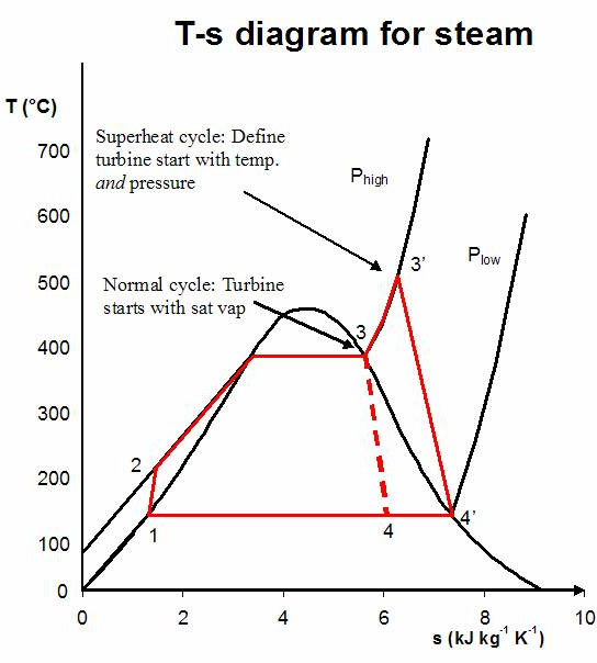 T-s diagram for Rankine cycle with superheat (compressions and expansions not isentropic)